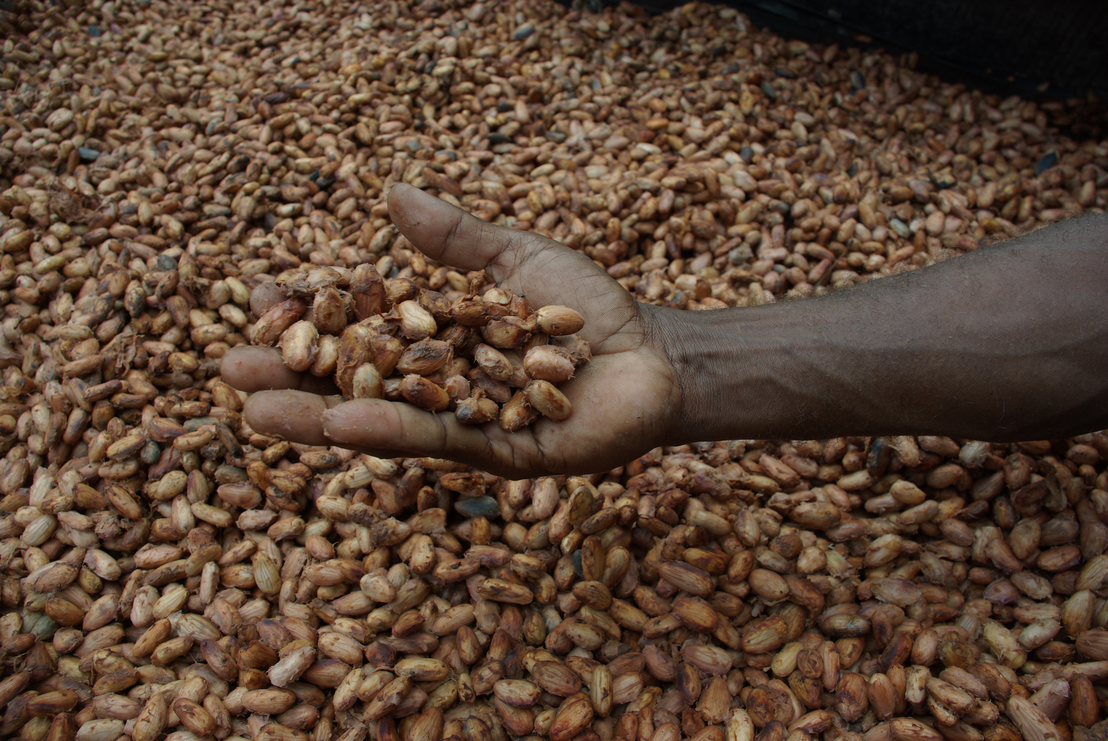 Medium close up image of David Kebu Jnr holding cocoa beans drying in the sun. Photo taken by Irene Scott for AusAID. (13/2529)